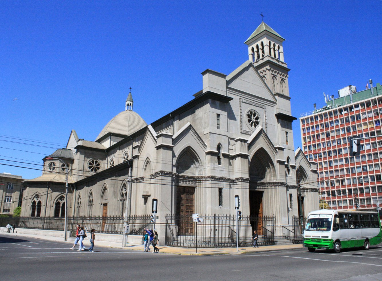 This photo and those that follow were taken during our second visit to Valparaiso on 30 September. Valparaiso Cathedral is dedicated to the Virgen of Carmen and is the mother church of the Diocese of Valparaiso. It was built between 1930 and 1950 in the Gothic style on land donated by Joan Ross Edwards. It was restored after the earthquake of 1971 and 1985 .